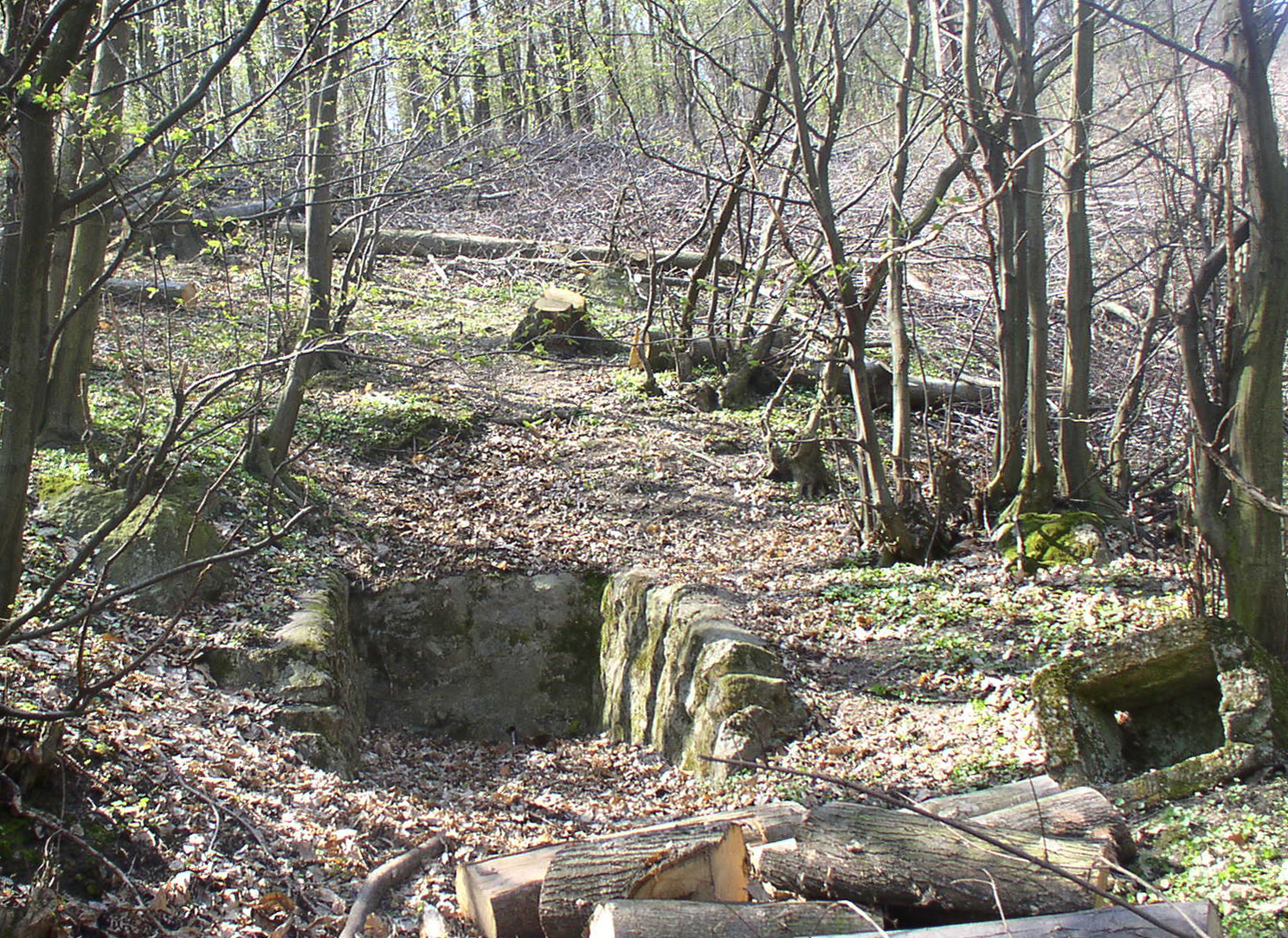 Spring in the wood Malé Karpaty, Ahoj, Bratislava